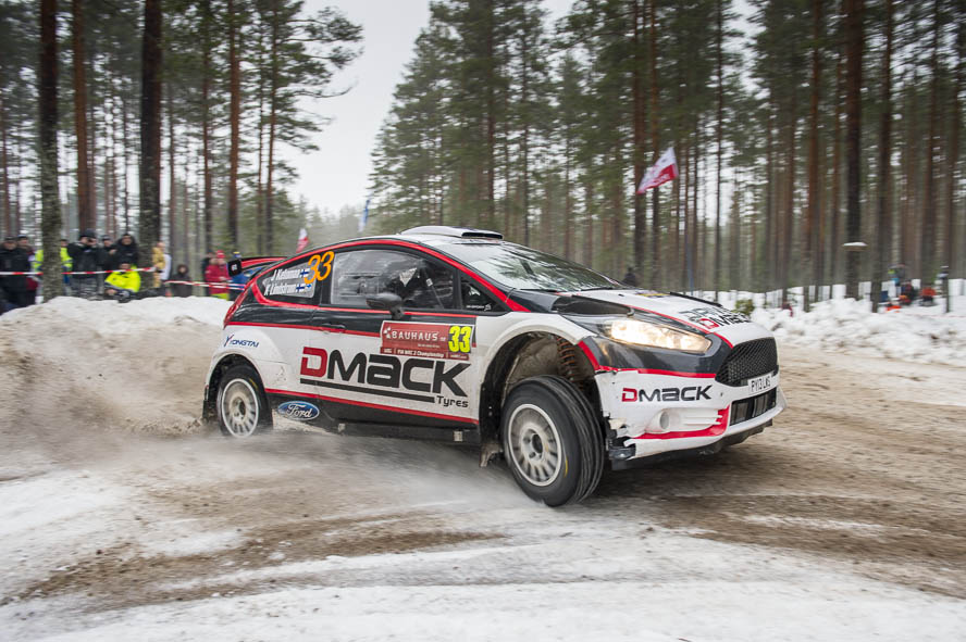 Rally Sweden 2014 Drive Dmack,Ford Fiesta R5,Fredriksberg 1,Jari Ketomaa,Kaj Lindström,Motorsport,Rally,Rally Sweden,Rallye,Rallye Schweden,SS9,WP9